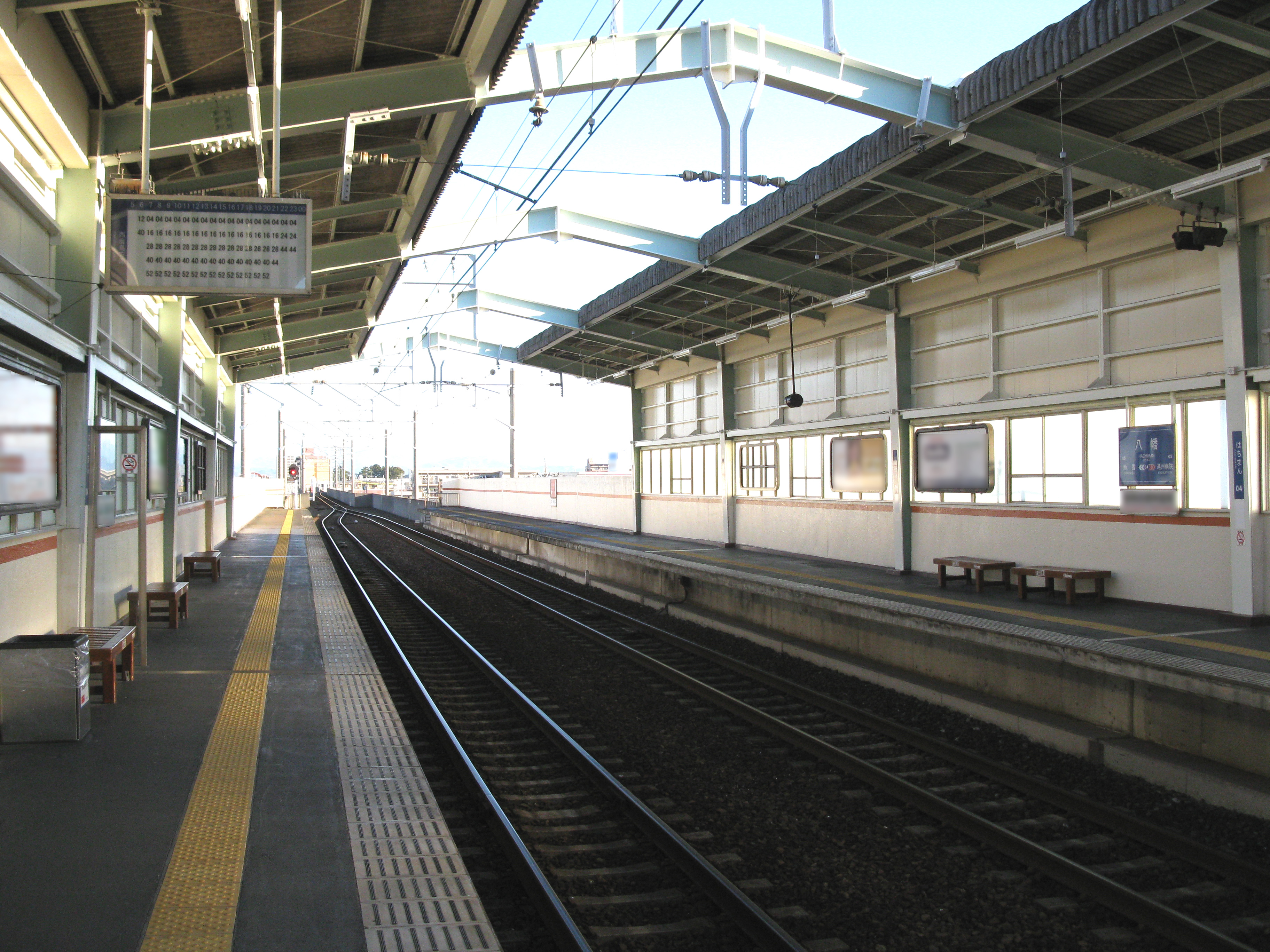 Hachiman Station platform (Enshū Railway Line)